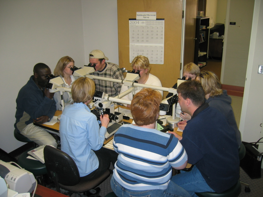 Pathology lab in the University of North Dakota School of Medicine and Health Sciences.